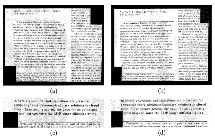 Mosaicing of two document images. In the overlap region the pixels are blended, using an unweighted mean at the centre of the region and increasingly weighted means towards the edges. This blending operation eliminates any abrupt seams in the mosaic, but will result in a blurred composite if the registration is not accurate. Blurring is evident in the affine mosaic (b), but not in the mosaic constructed using a plane-to-plane projectivity (a). Close-ups of typical seams from (a) and (b) are shown in (c) and (d) respectively. Note the system’s ability to cope with mixtures of fonts and unaligned columns.